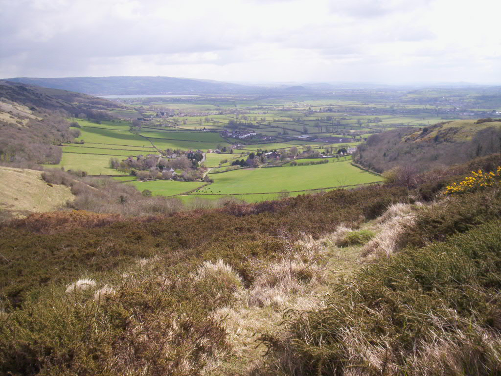 View of Compton Bishop, Somerset, England, taken from hills above showing valley setting, Mendip escarpment, Cheddar reservoir and the Somerset Levels.